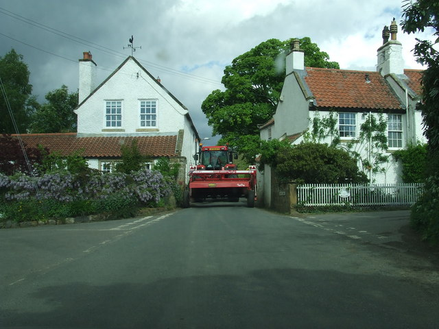 A Tight Fit. A farm tractor and it implement a tight fit between the walls near to Little Ayton, North Yorkshire.